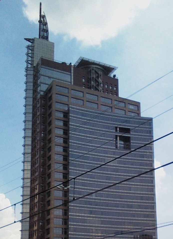 Birmann 21 Building in São Paulo, Brazil.